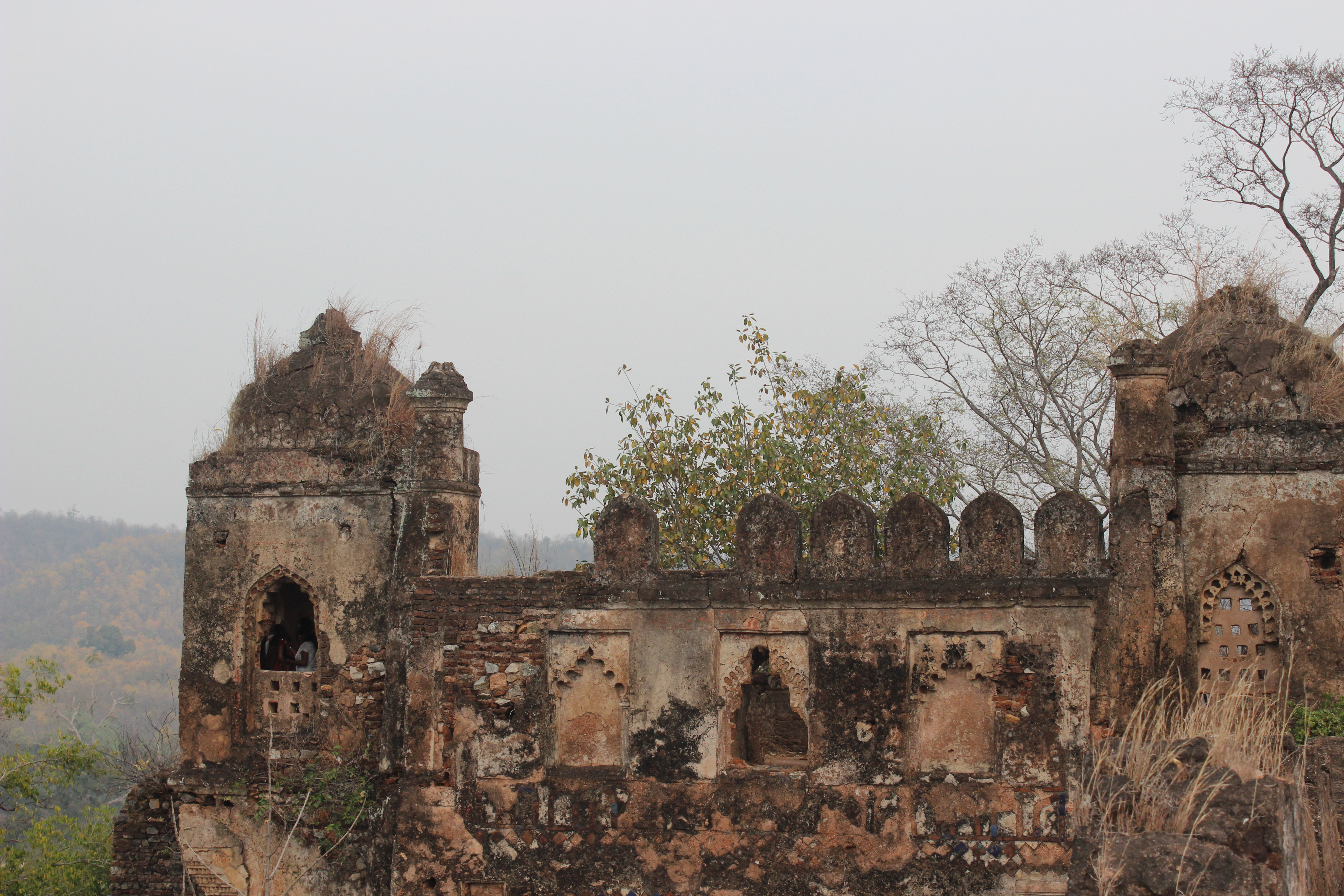 A view of Palamu quila in Betla national park